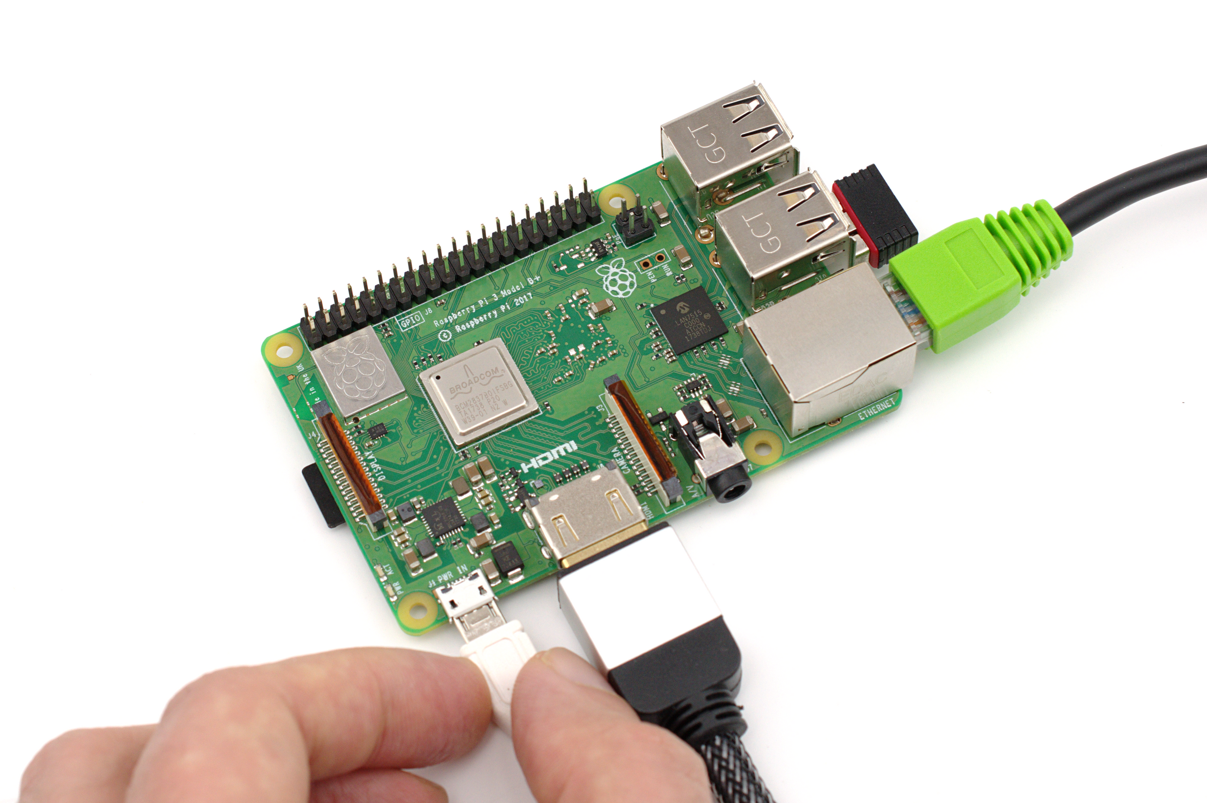 Raspberry Pi 3 B+ single-board computer, supplied as a press sample by the Raspberry Pi Foundation.